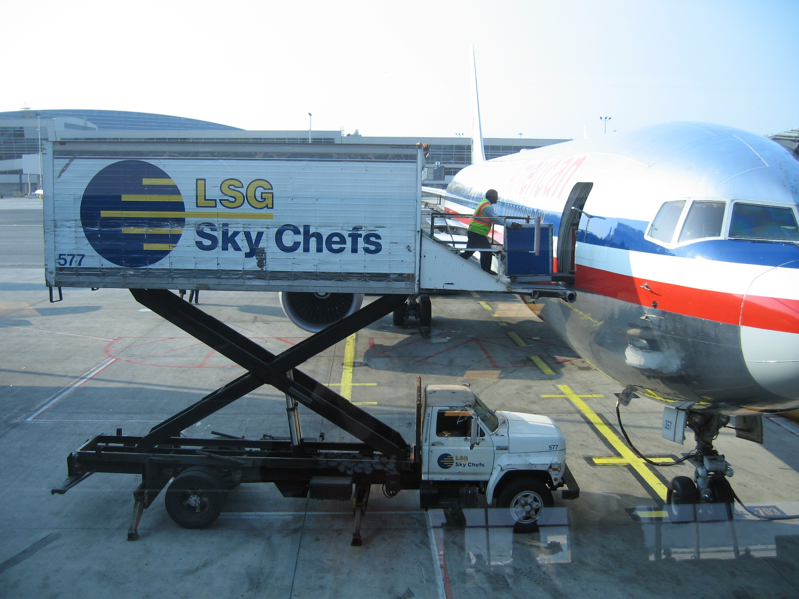 Food being delivered to American Airlines plane